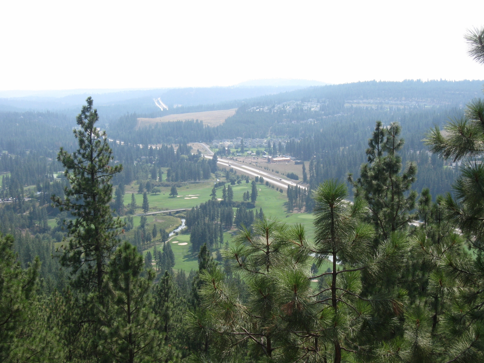 A view of U.S. Route 195 in Spokane, Washington viewed from Moran Prairie in 2009.